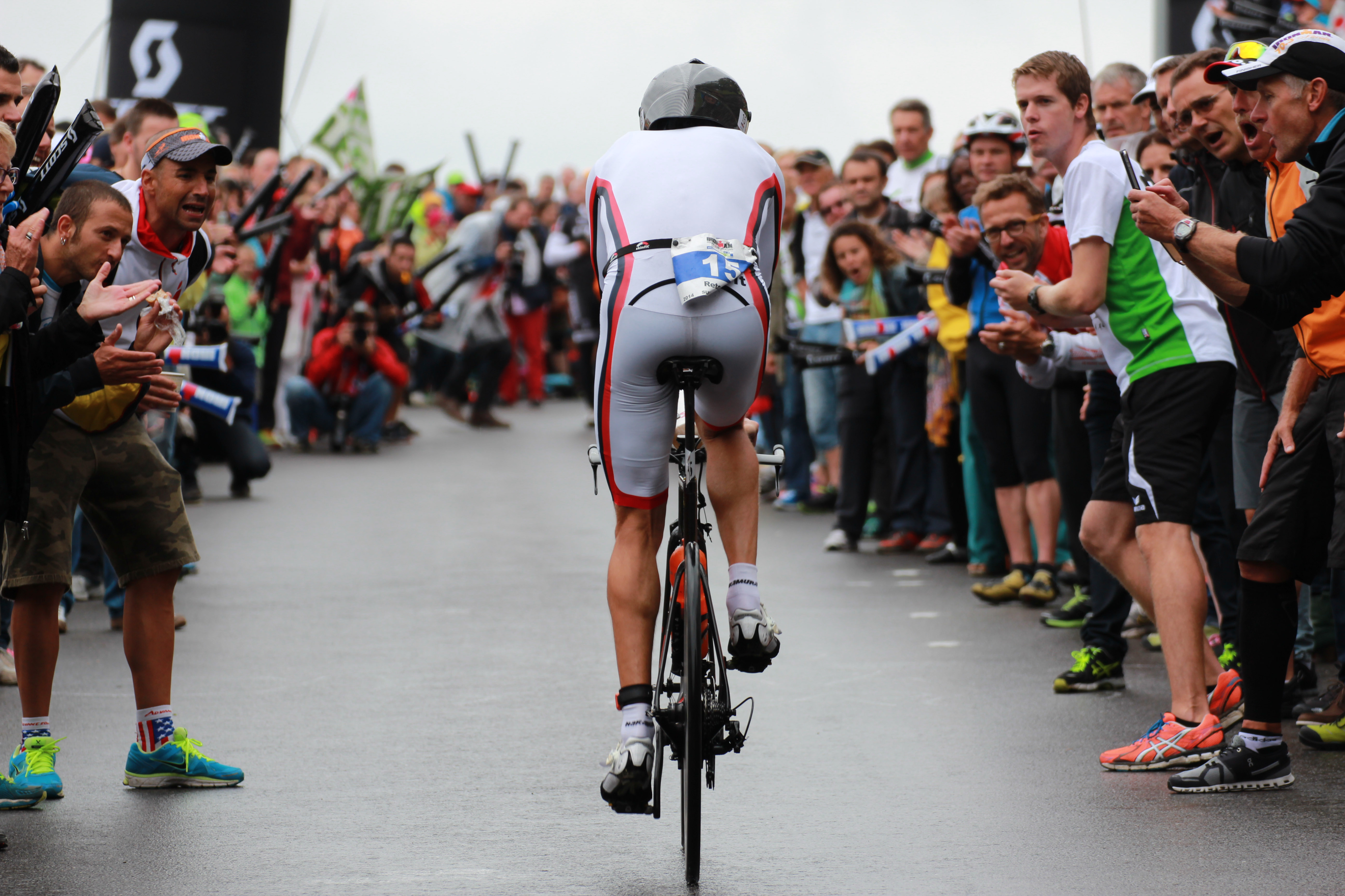 Crowds cheering Reto Stutz while climbing Heart Brake Hill at Ironman Switzerland 2014.jpg